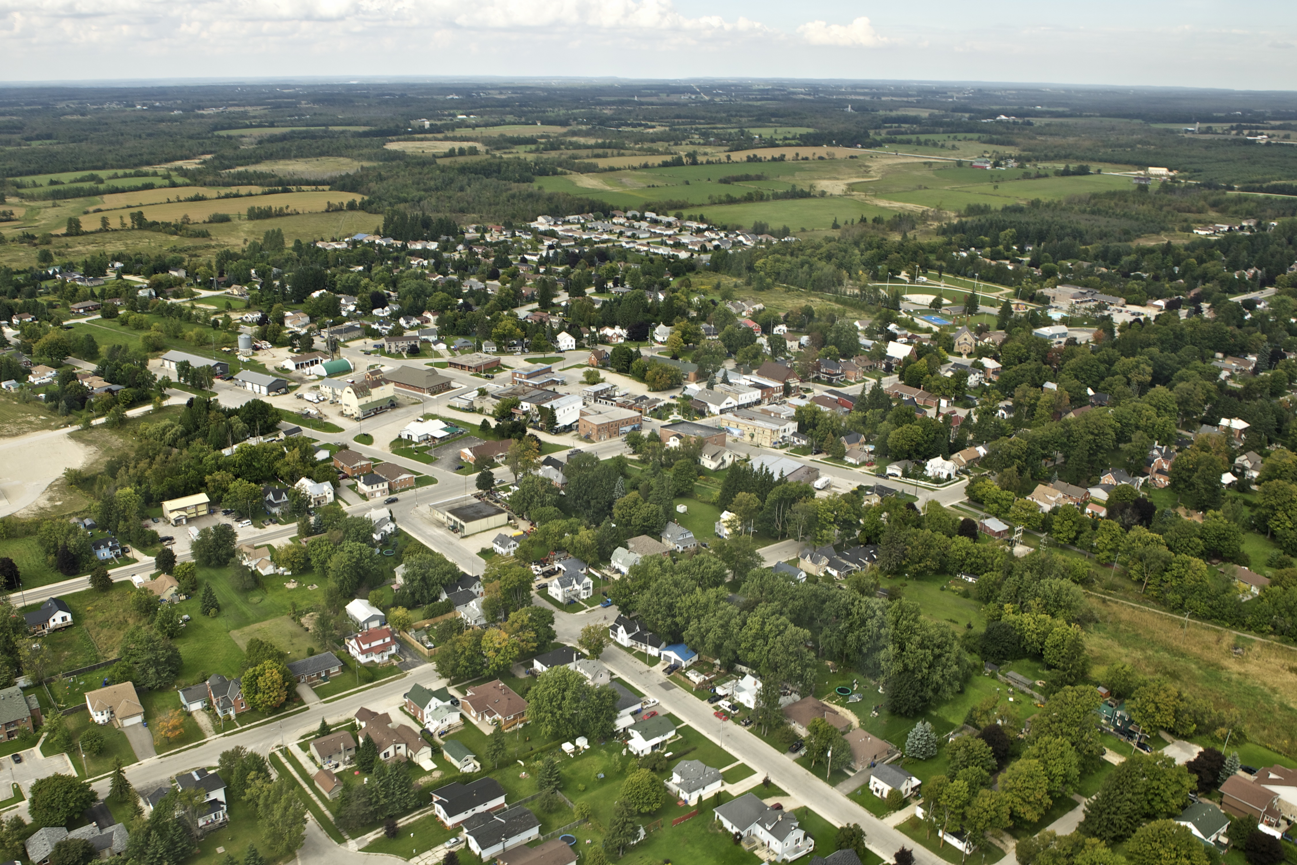 Aerial view facing north of Dundalk, Ontario, Canada